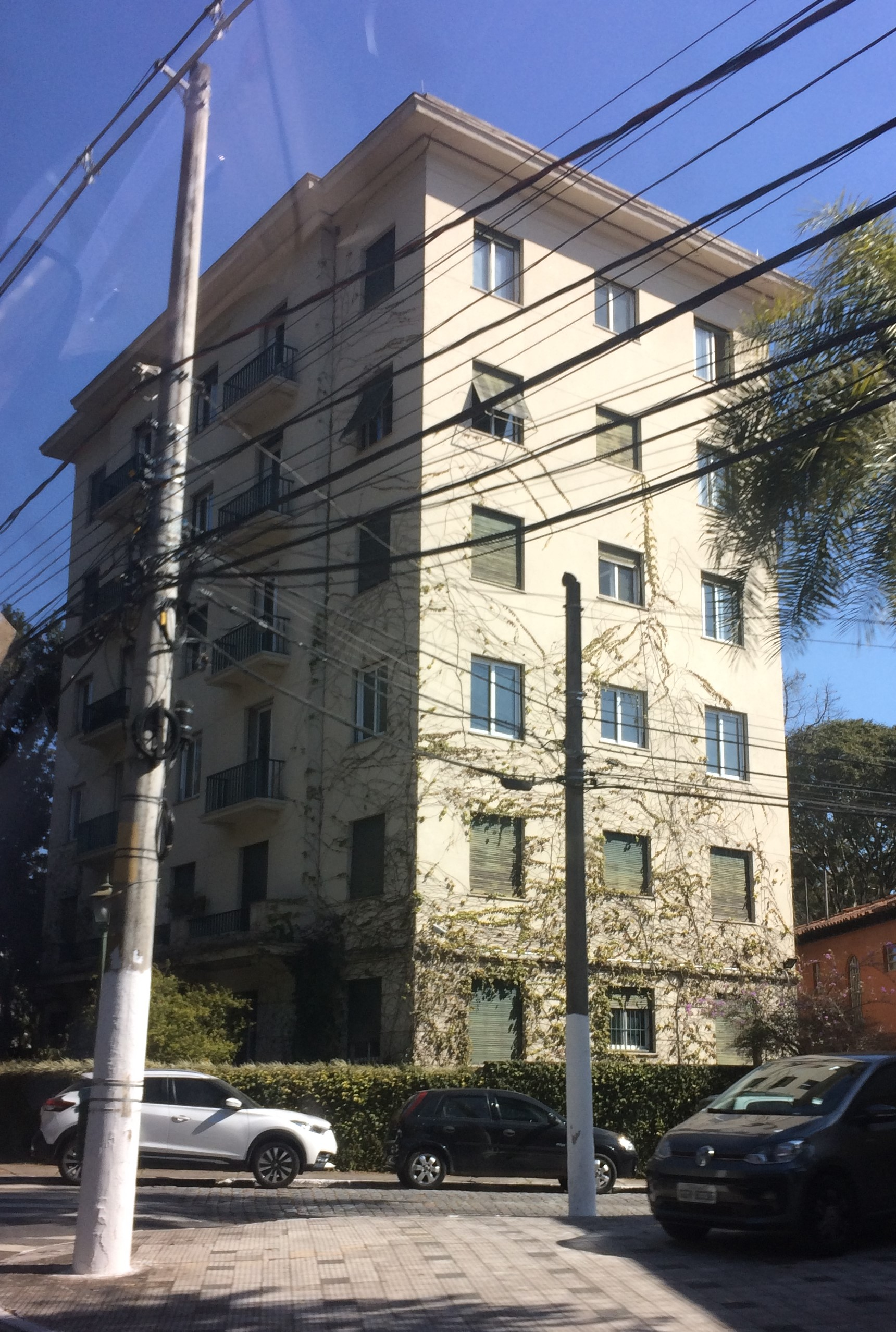 Edifício São Carlos, situado na Av. República do Líbano, n° 930, em frente ao Parque do Ibirapuera, em São Paulo. Erguido em meados dos anos 50, em estilo neoclássico, tornou-se conhecido por ter suas fachadas inteiramente cobertas por plantas trepadeiras, que acabaram retiradas em 2014 para uma reforma estrutural, mas replantadas logo após. Foi também residência do estilista, apresentador de TV e político Clodovil Hernandes.